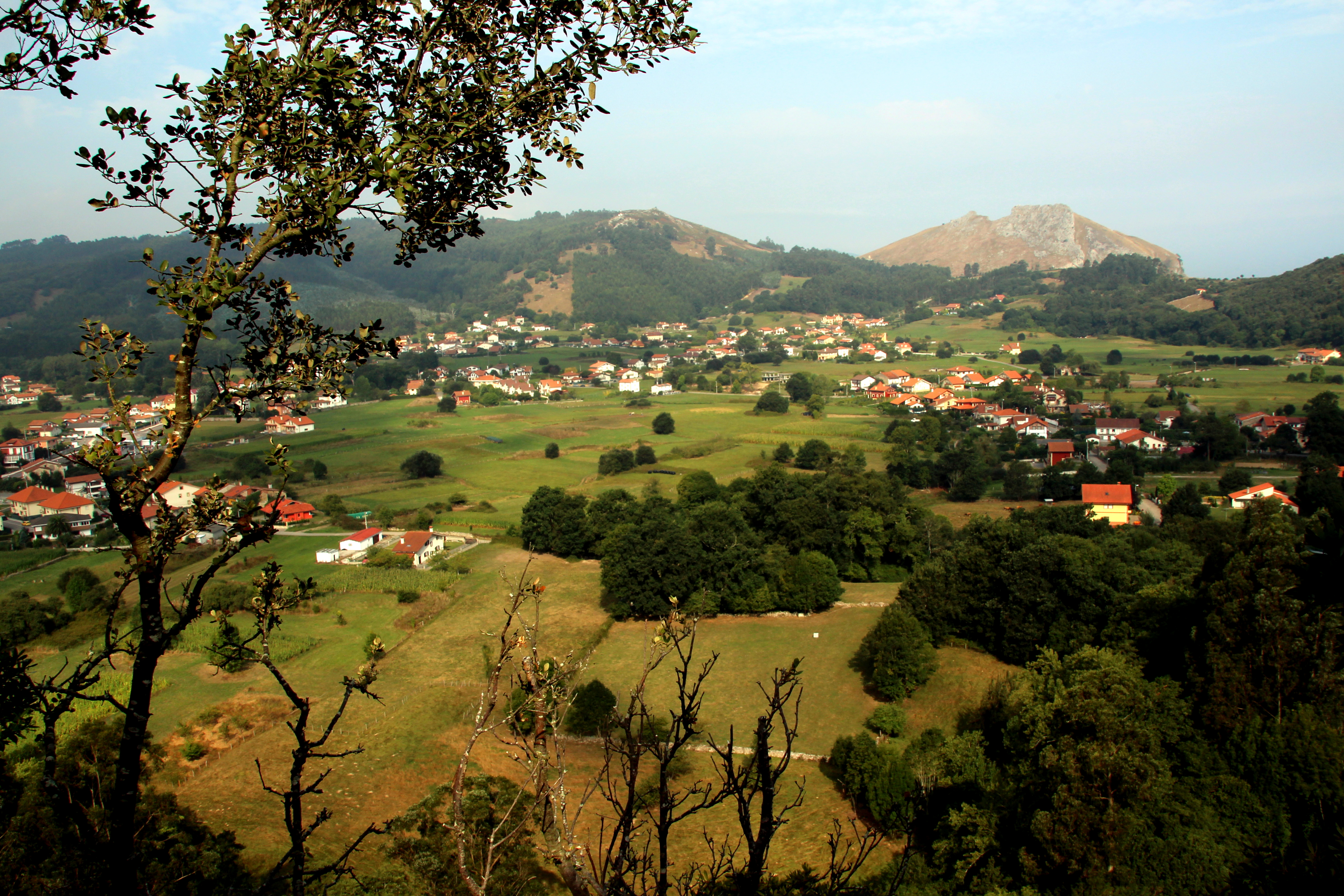 Liendo valley, in Cantabria (Spain).